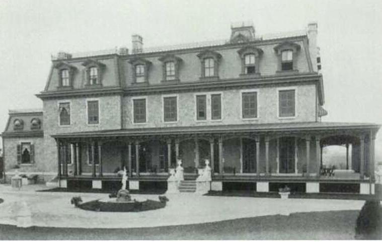 Photograph of "Louella", home of J. Henry Askin, founder of Louella, later Wayne, Pennsylvania.